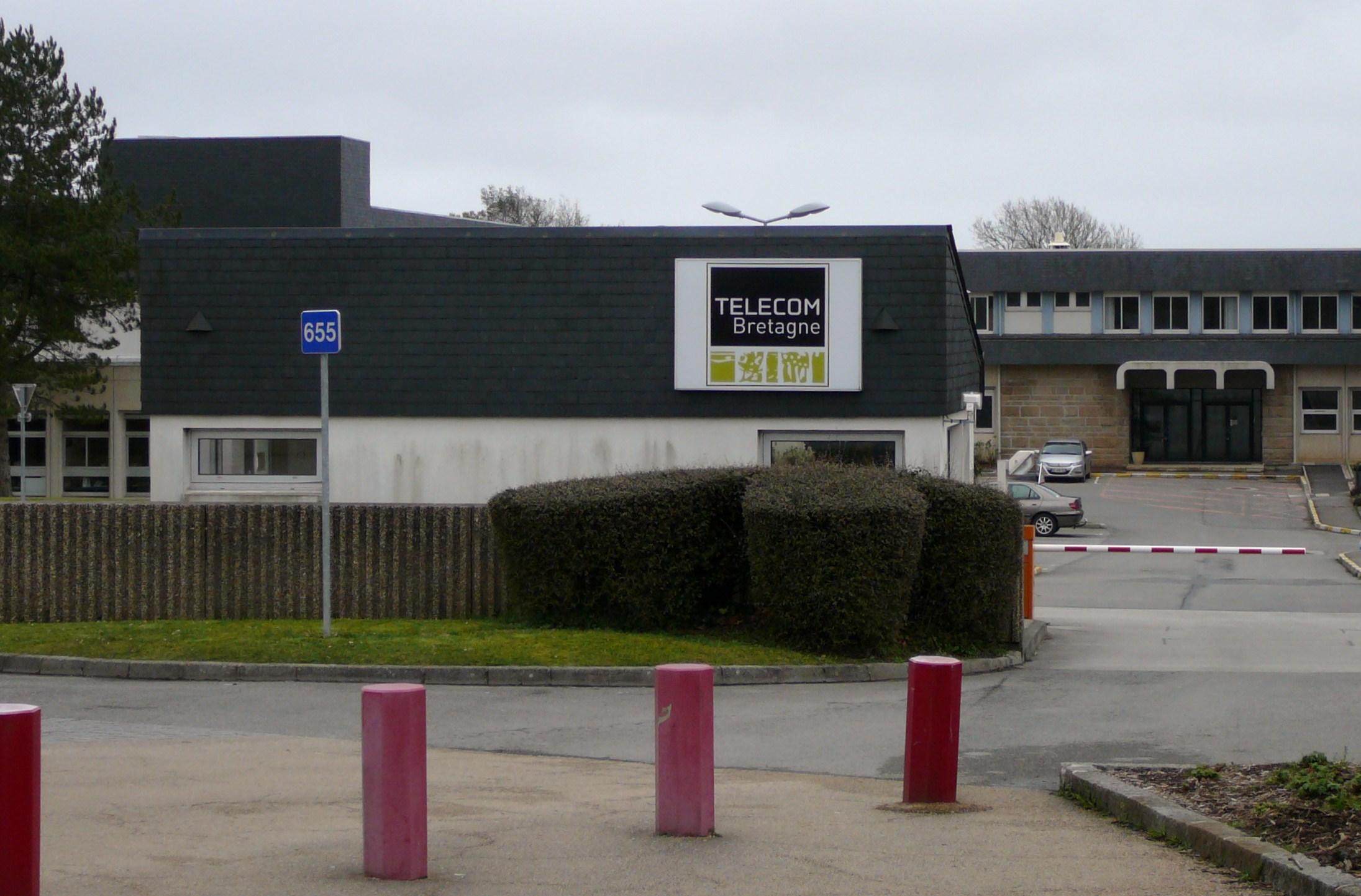 Old entry of Telecom Bretagne